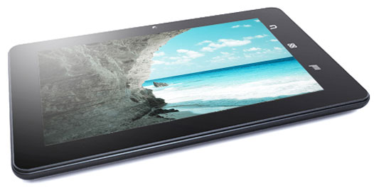 A Tab with a 7-inch TFT capacitive touch screen